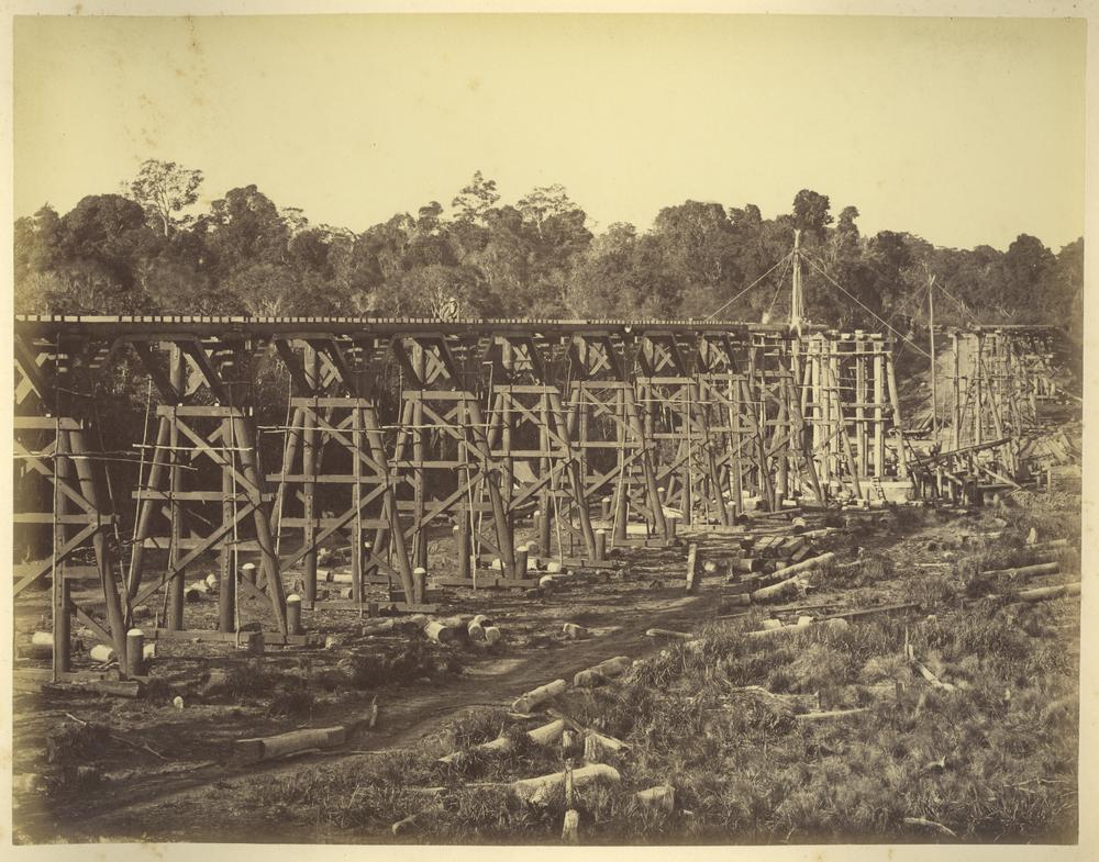 Splitters Creek railway bridge near Bundaberg High wooden trestle bridge of Splitters Creek on the Bundaberg railway line.